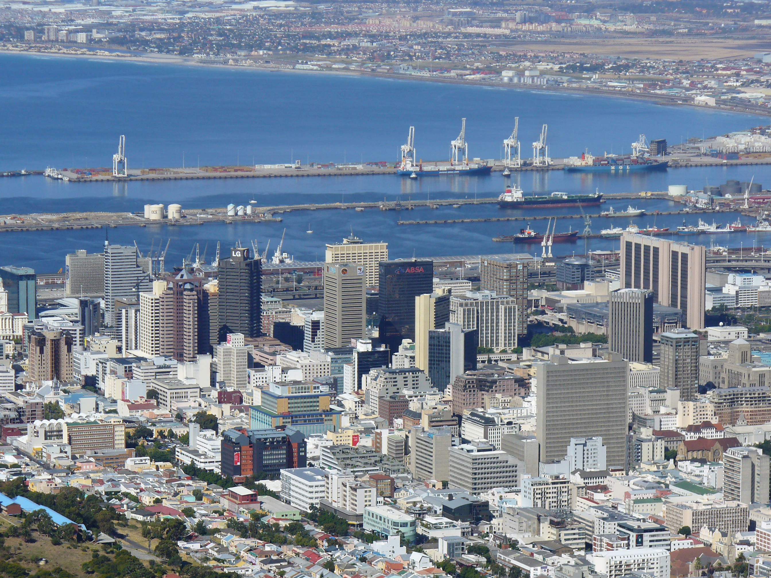 Central Cape Town from Lions Head